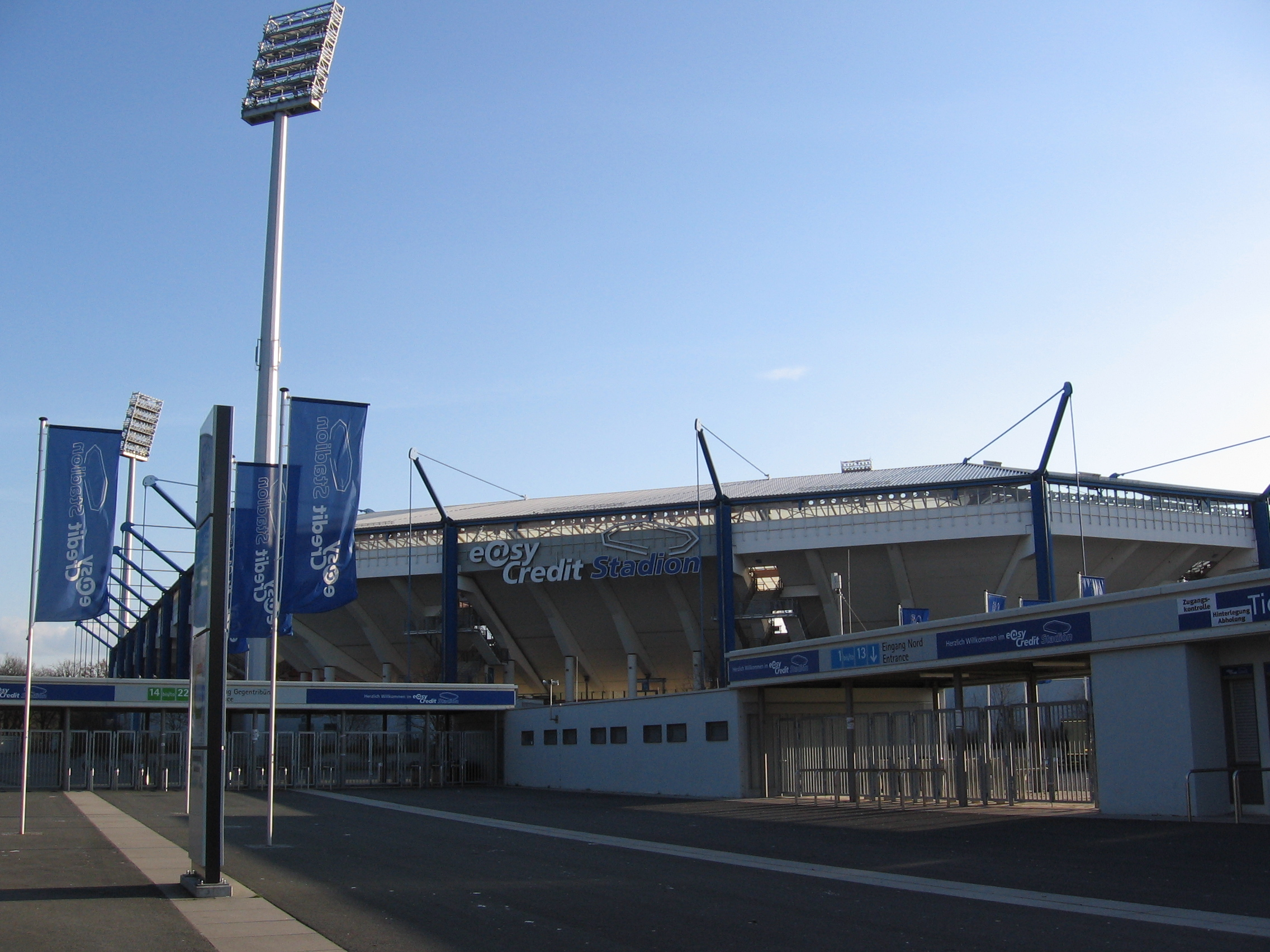 Image of easyCredit-Stadion (Nuremberg, Germany)